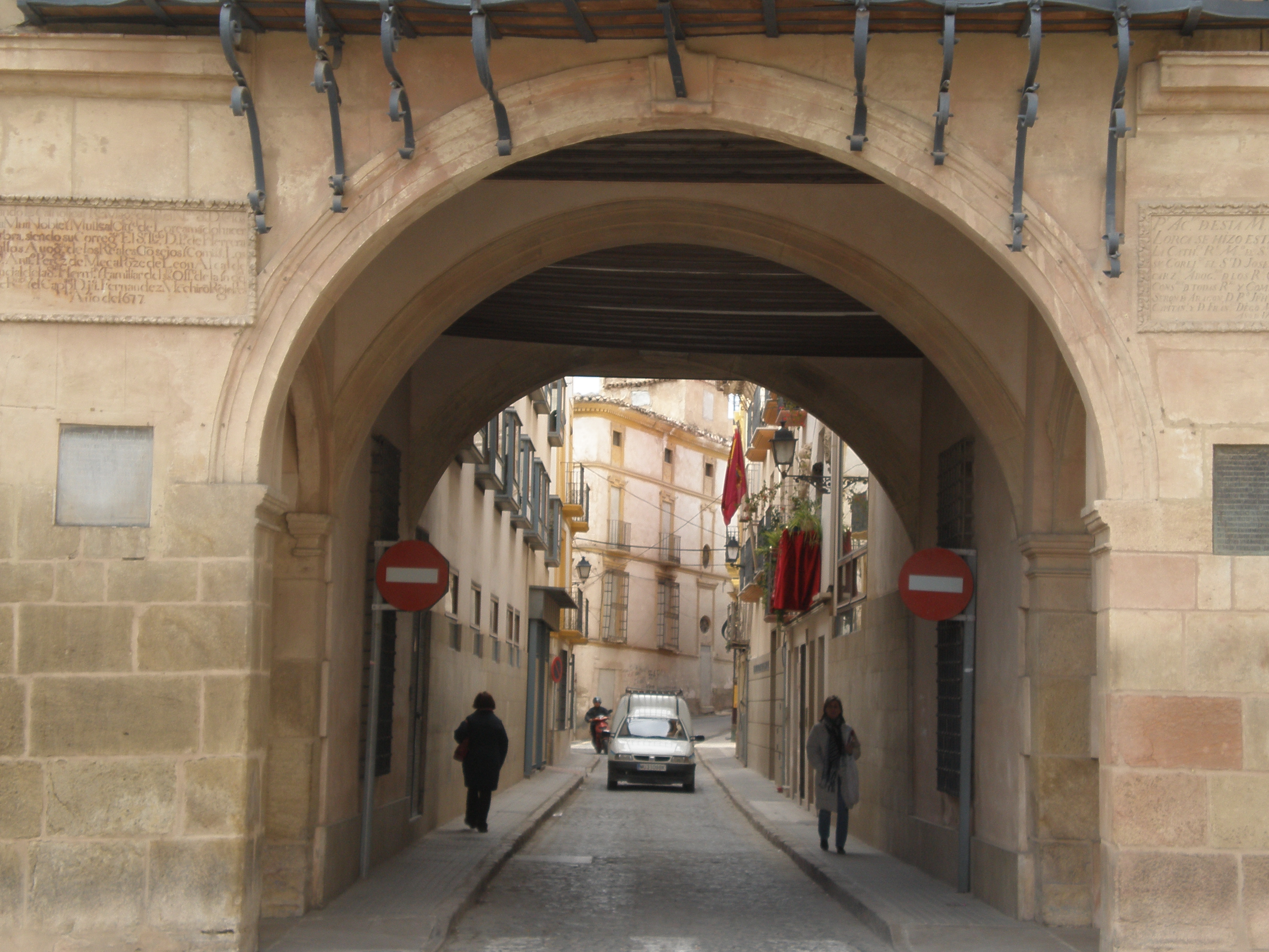 Town Hall's Arch